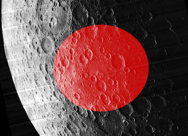 Oblique view of the Coulomb-Sarton_Basin, on the far side of the moon, with the approximate extent of the basin highlighted in red.